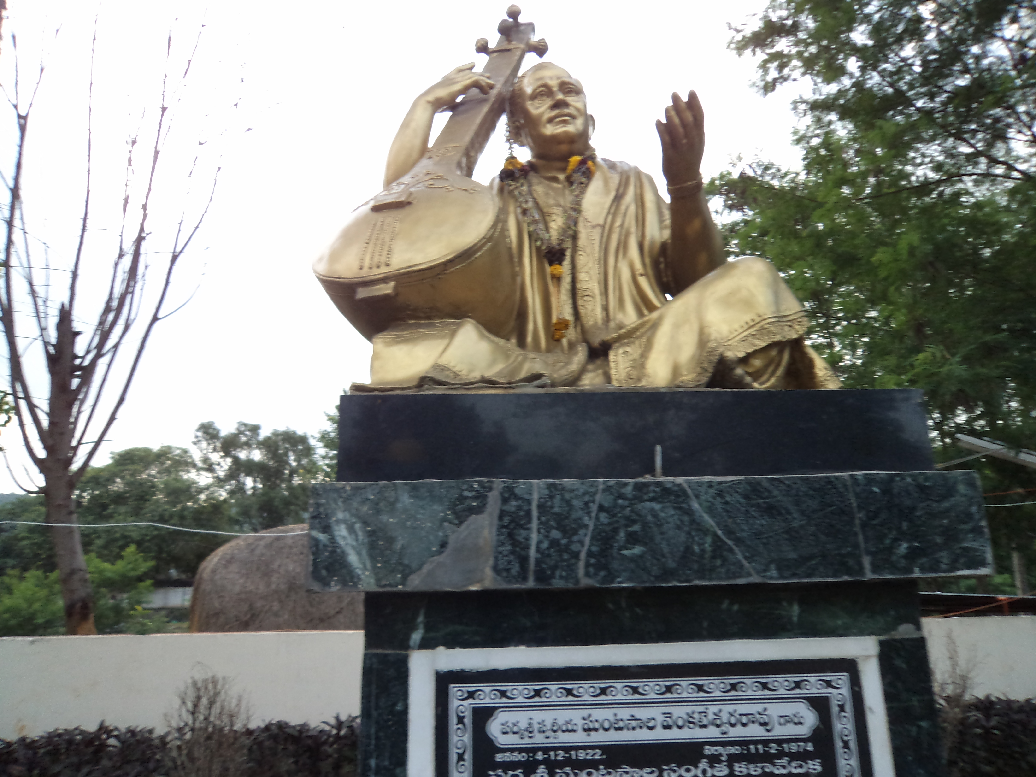 Ghantasala's statue at Tummalapalli Kshetrayya Kalakshetram